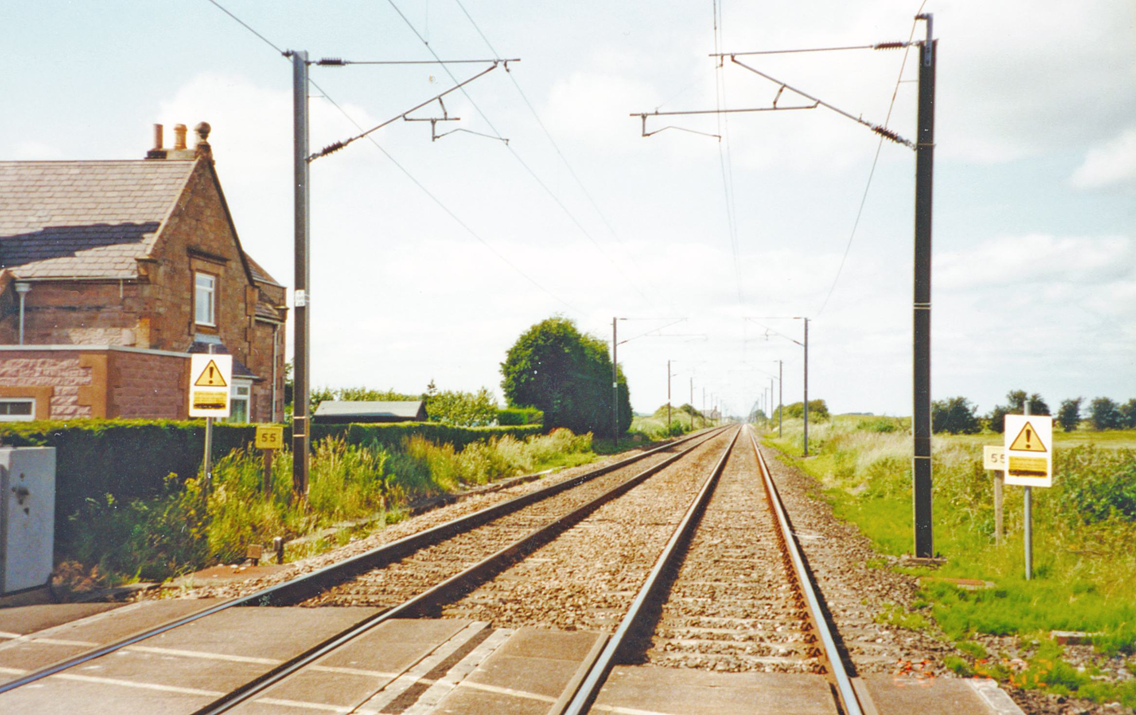 Site of former Smeafield station, ECML 2002. View northward, towards Berwick-upon-Tweed and Edinburgh: ex-NER Newcastle - Berwick section of the East Coast Main Line, electrified in 1991. This was a Private Station, built for [?], but could be used by the Public, occasionally, until 1/5/30. When it was finally abandoned remains apparently unrecorded